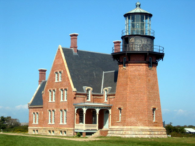 Lighthouse on Block Island, RI